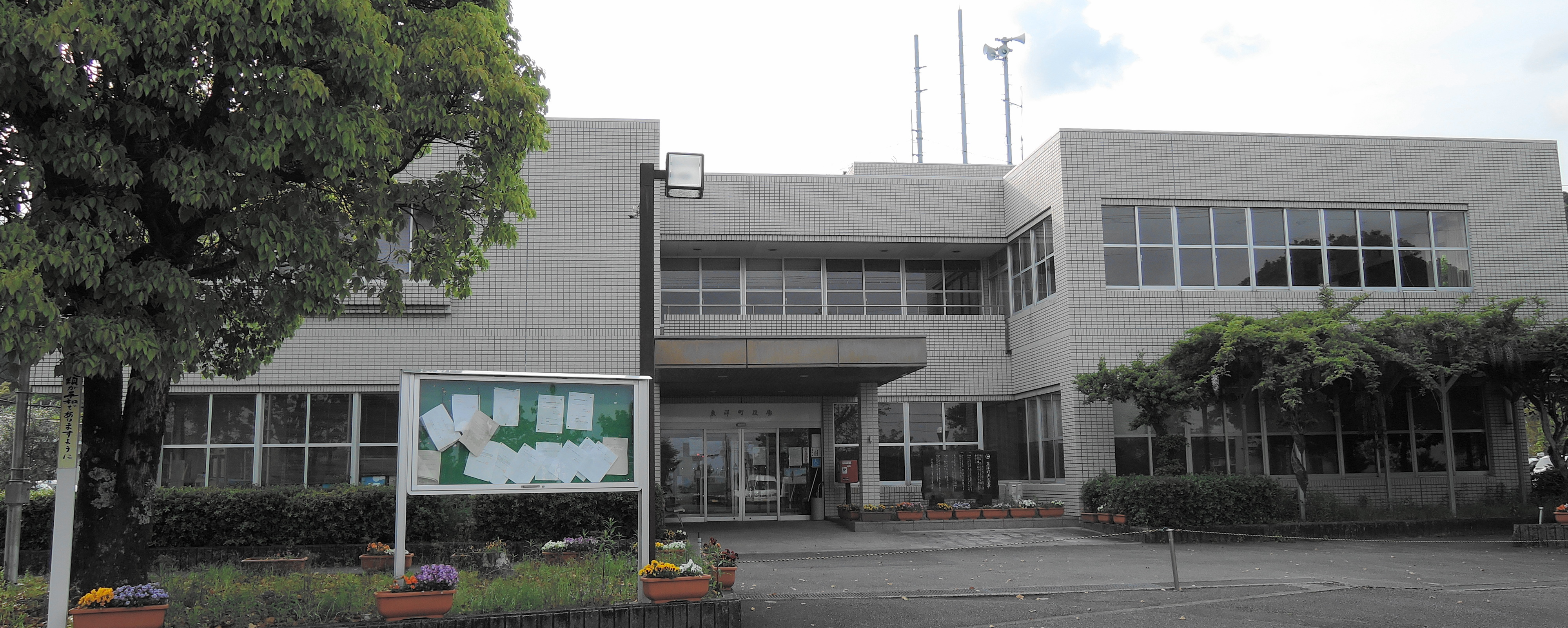 Toyo town hall,Kochi prefecture,Japan